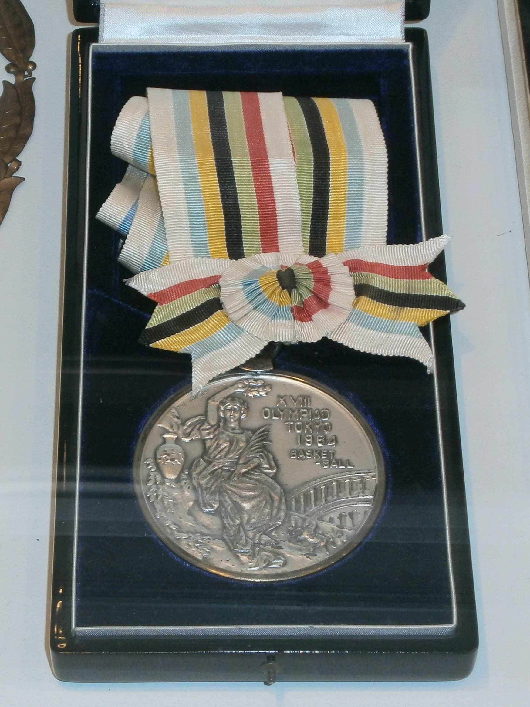 1964 Summer Olympics – Jānis Krūmiņš silver medal